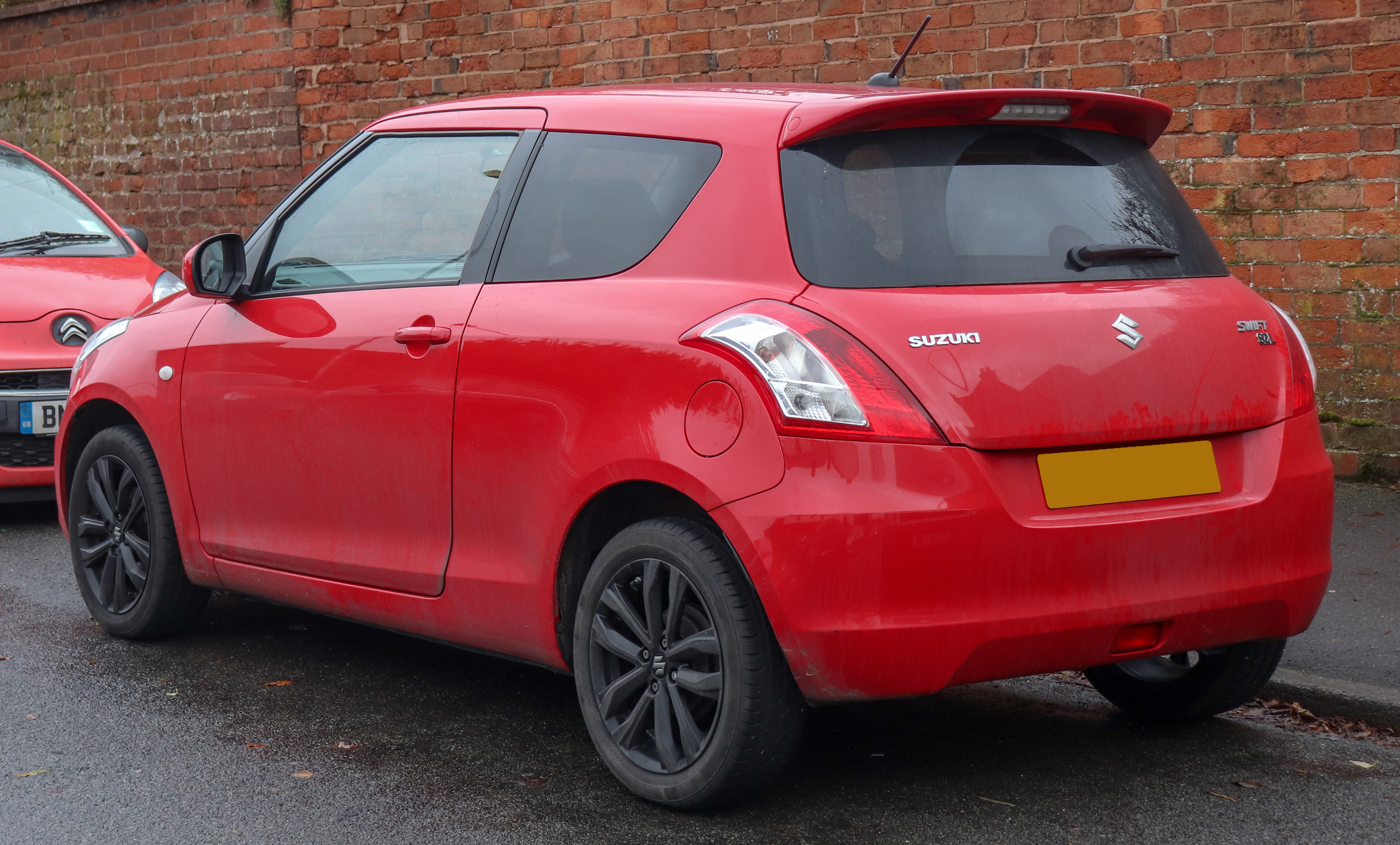 2017 Suzuki Swift SZ-L 1.2 Rear Taken in Leamington Spa